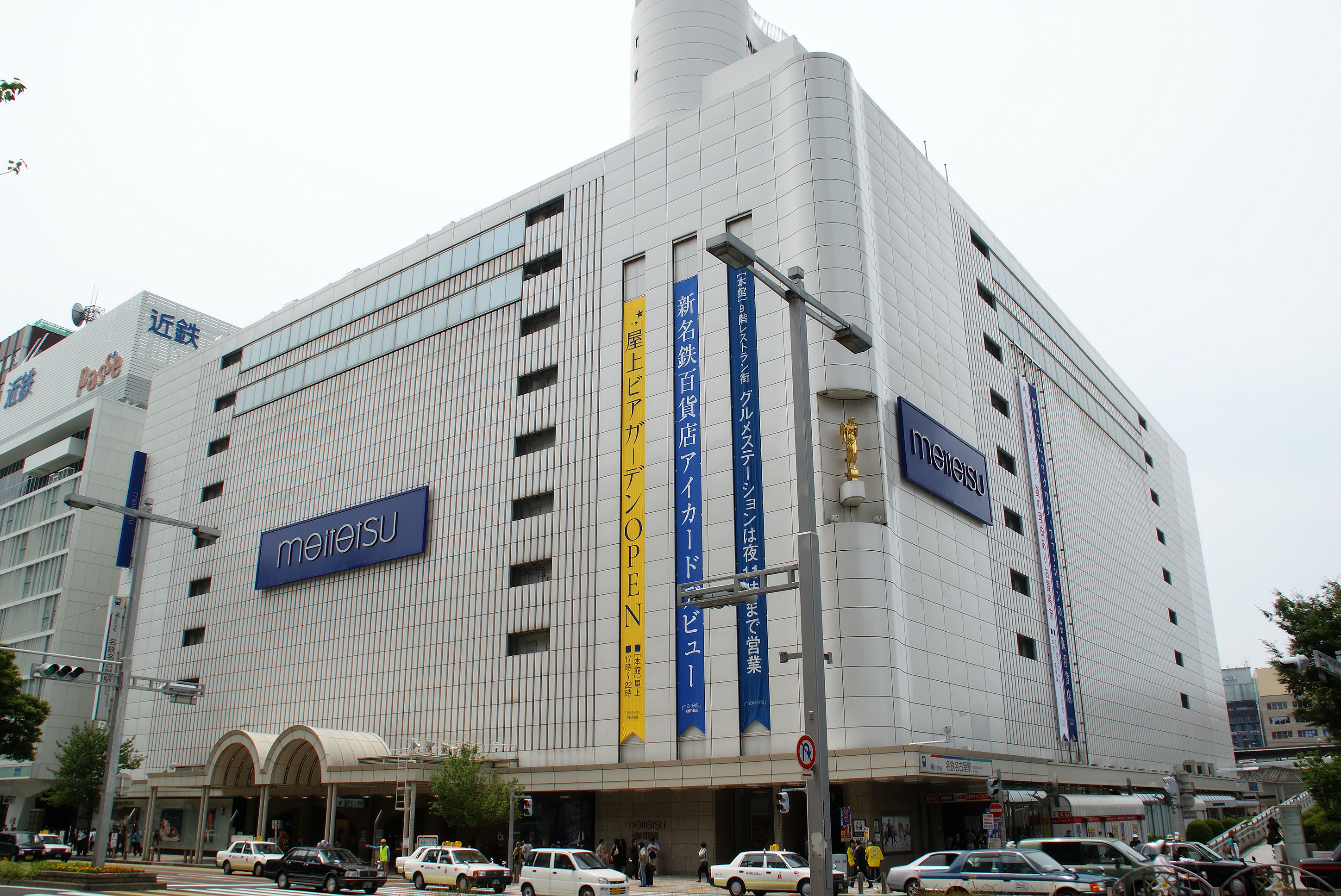 Head Store of MEITETSU Department Store.(Nakamura Ward, Nagoya City, Aichi Prefecture, Japan)